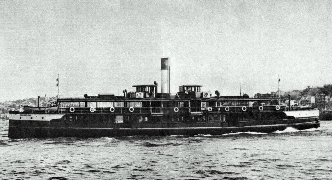 Manly Ferry Kuringgai on Sydney Harbour still relatively new